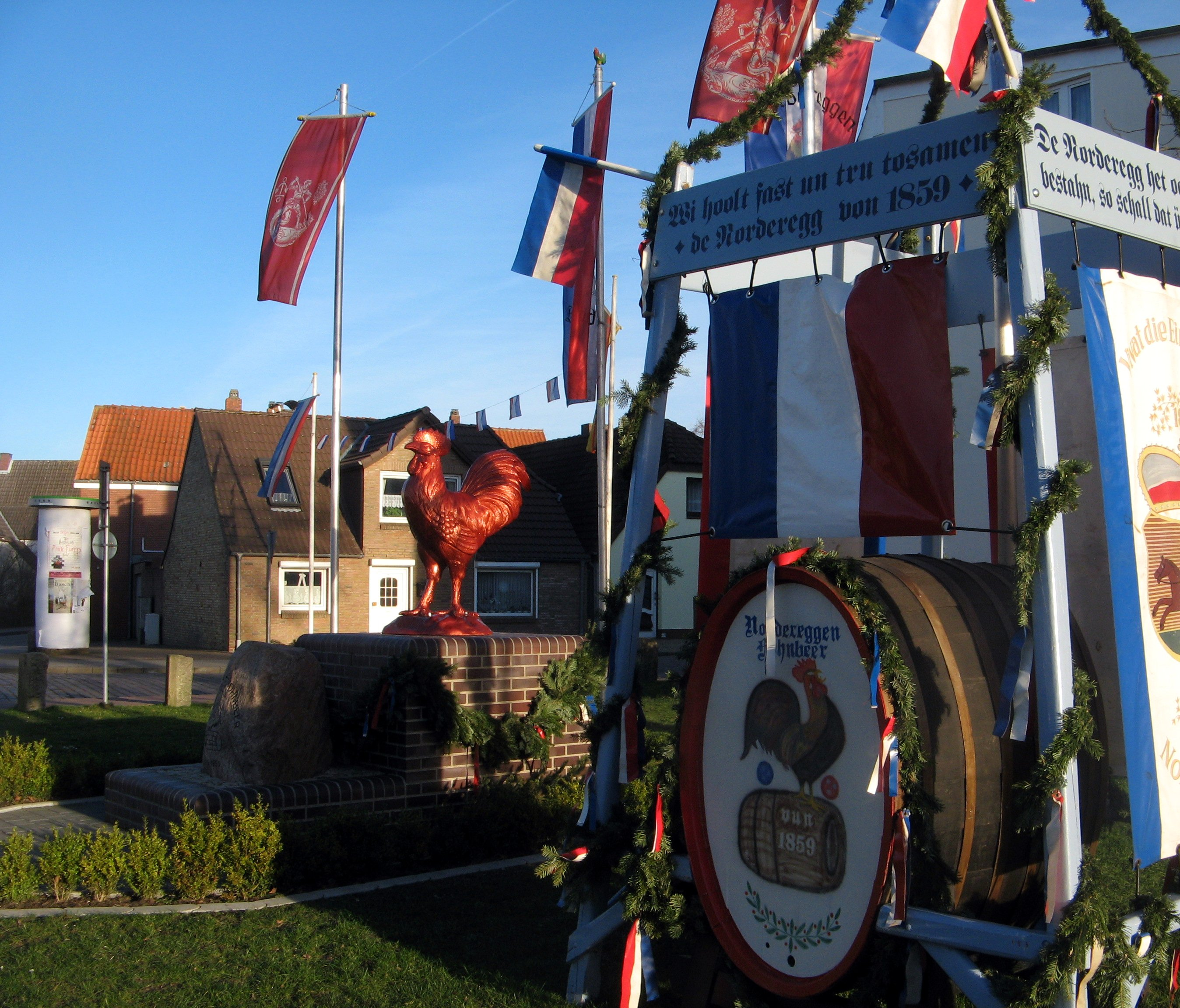 "Hohnbeer" symbol in Heide, Dithmarschen region. Hohnbeer is a traditional event in late winter/early spring where the three "Eggen" (neighbourhood)of the town of Heide - the northern Egge, the Easter Egge and the Souther Egge, celebrate neighbourhood and solidarity. It comes from a time when there was no administration of the town and common deeds hab to be done. This is the symbol of the Norderegge.